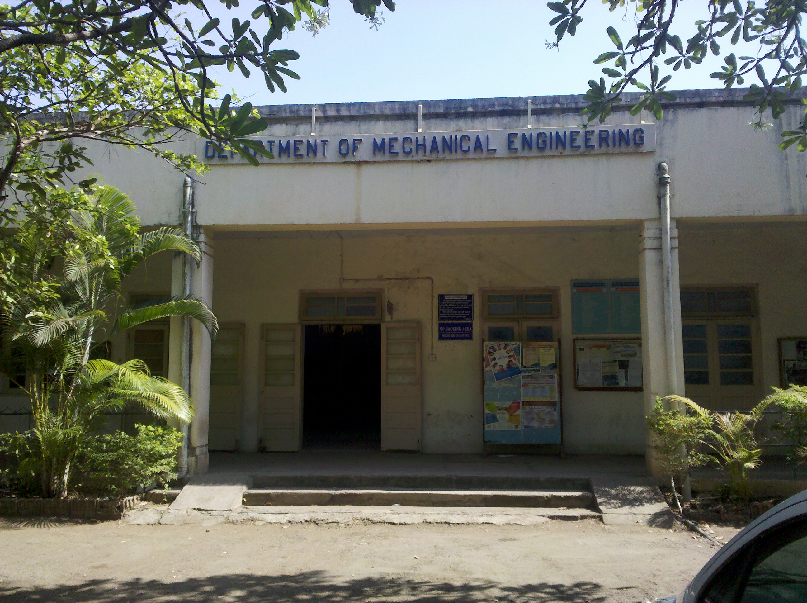 Walchand College of Engineering Sangli Department of Mechanical Engineering